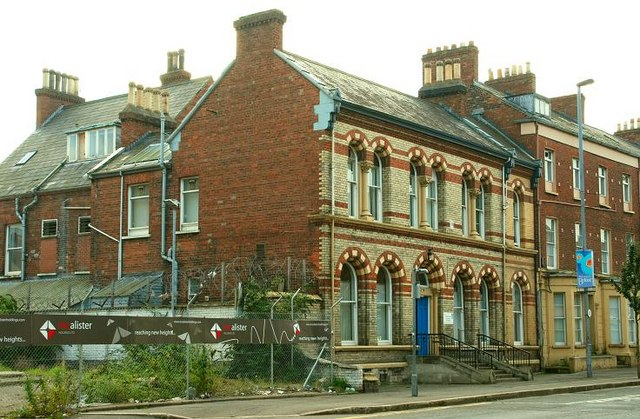 Shaftesbury Square Hospital, Belfast. Built in 1867, to a design by WJ Barre, as the Ophthalmic Hospital, and extended, in the same style, in 1928 (the different brick is still discernible in the bay on the right). Charlie Brett noted "it has no hint of the pomposity usual in public buildings of the period". Now used as a place to treat people with alcohol and/or drug dependency. The vacant site on the left 445872 makes it look tatty (it's not). Although Called "Shaftesbury Square Hospital" the building is in Great Victoria Street. Continue to 1554296.